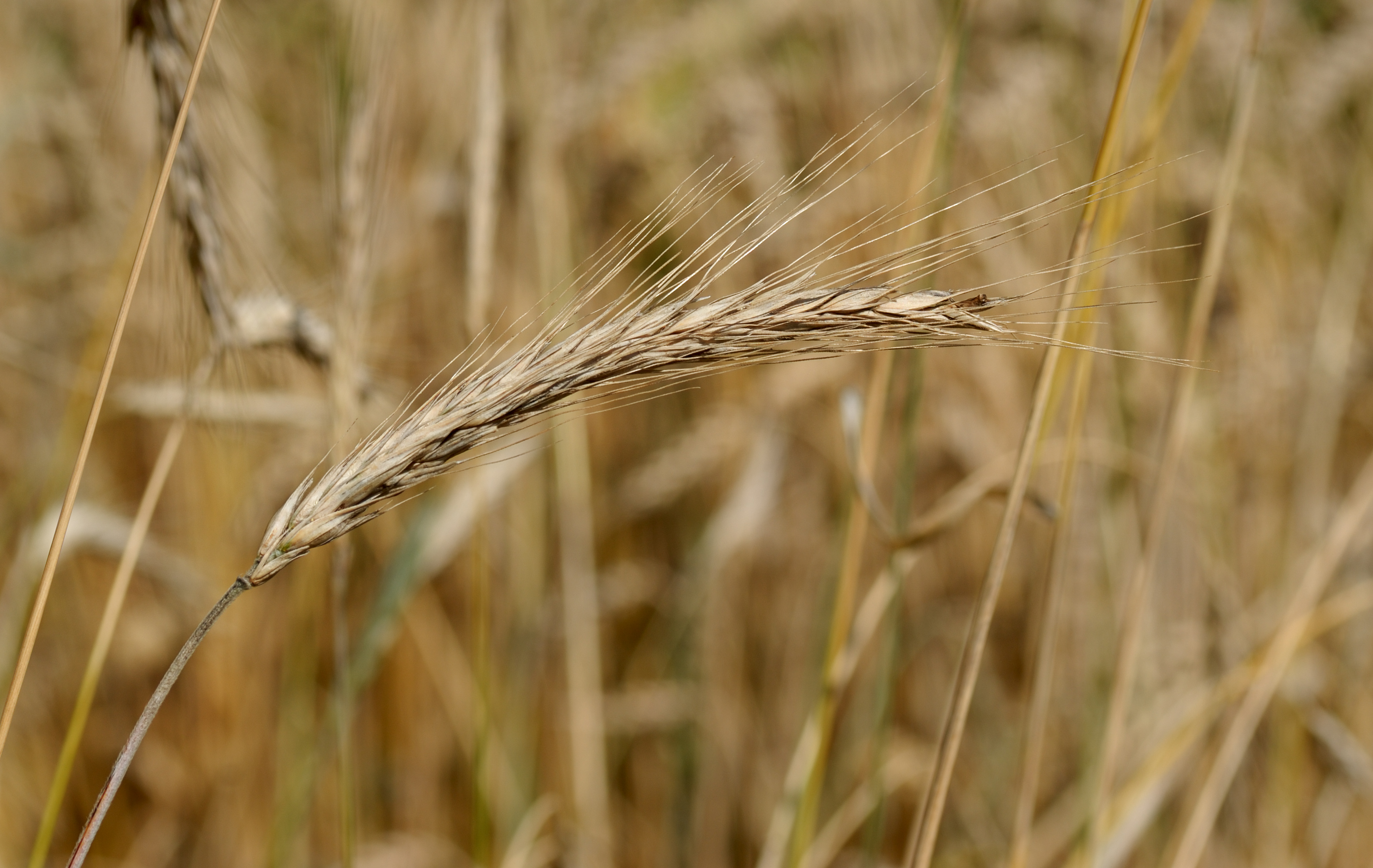 This image shows a rye ear (Secale cereale).